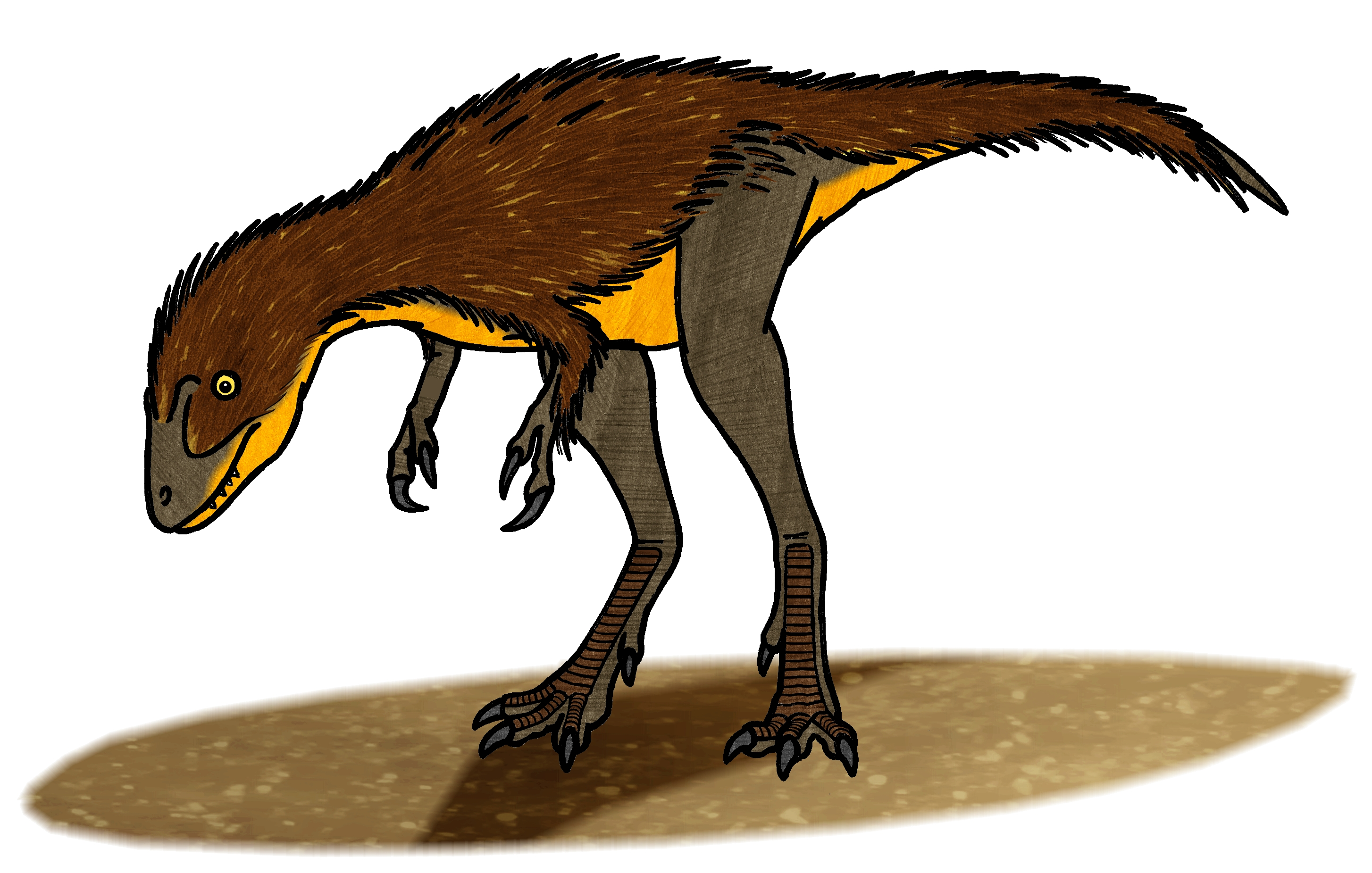 Illustration of a youngster of the theropod Tyrannosaurus rex, here restorated with feathers.